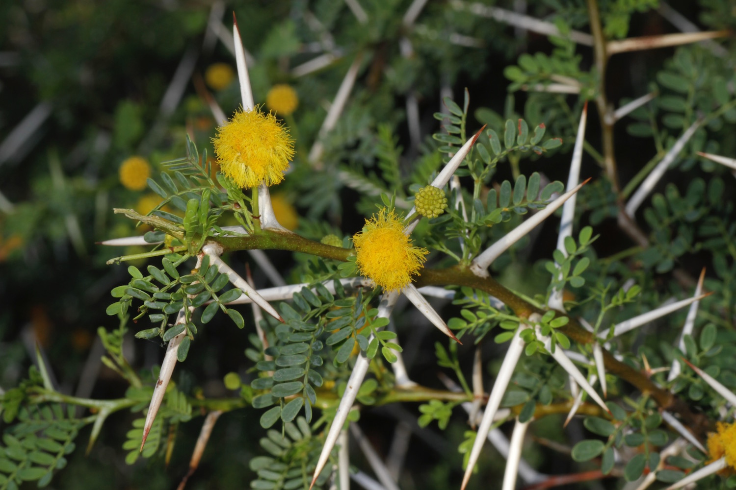 Acacia karroo (Fabaceae: Mimosoideae) from Karoo National Park